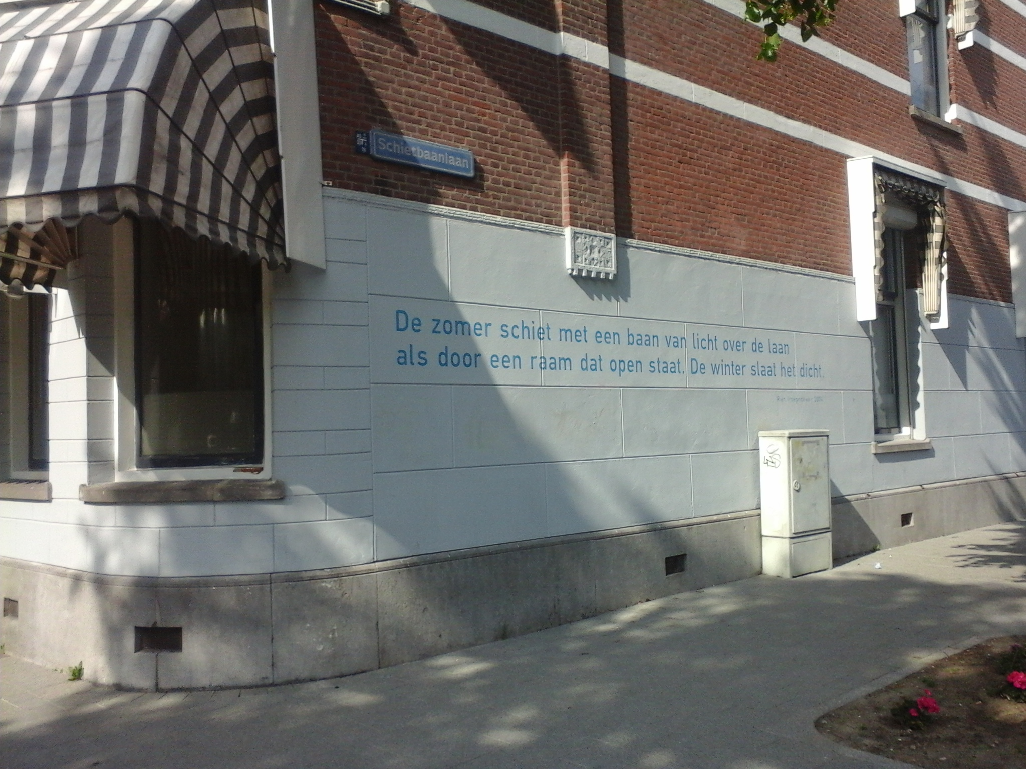 Poem of Rien Vroegindeweij on the wall in Rotterdam, 2019